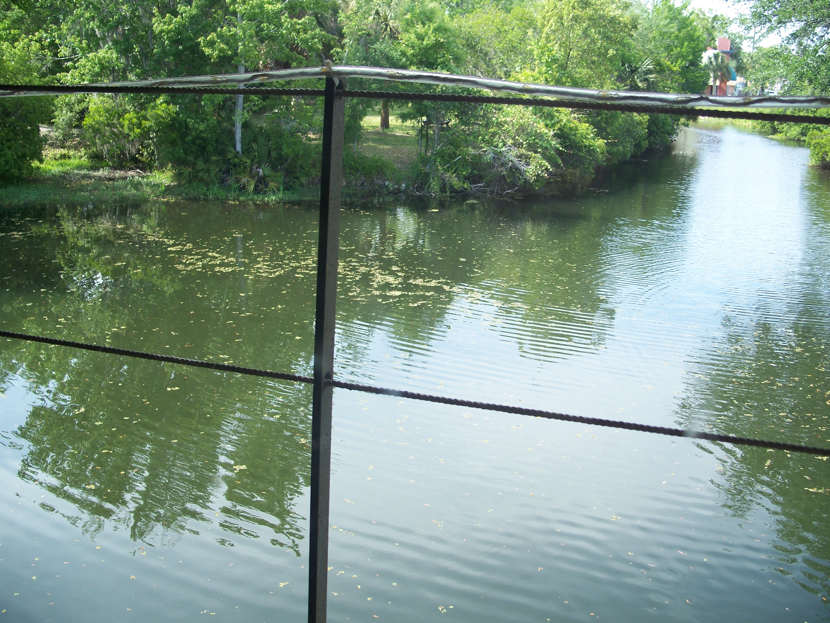 View from the "Remember When" restaurant in Homosassa Springs State Park in Homosassa, Florida.